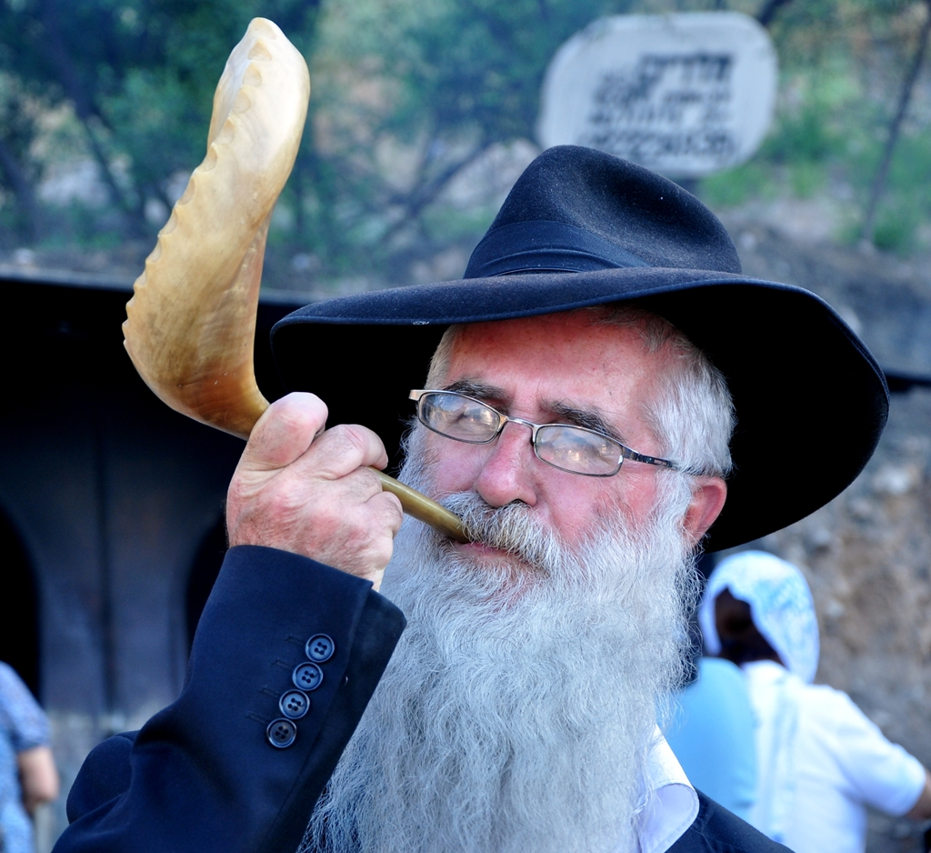 A hareidi man blowing a Shofar.